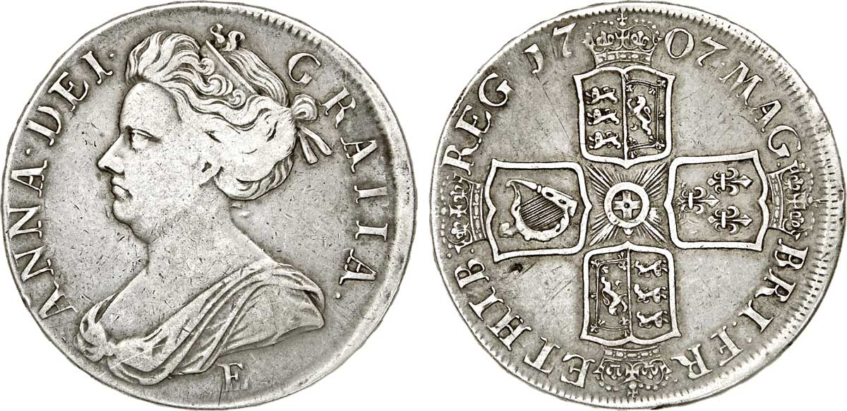 Un crown à l'effigie de la reine Anne, 1707.